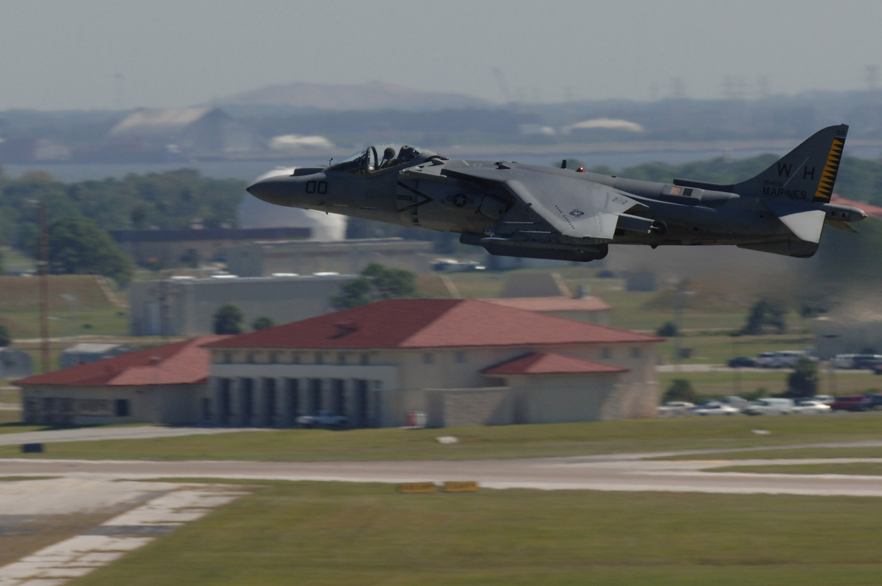 An U.S. Marine Corps McDonnell Douglas AV-8B Harrier II from Marine attack squadron VMA-542 Tigers flying over MacDill Air Force Base, on 25 October 2006.